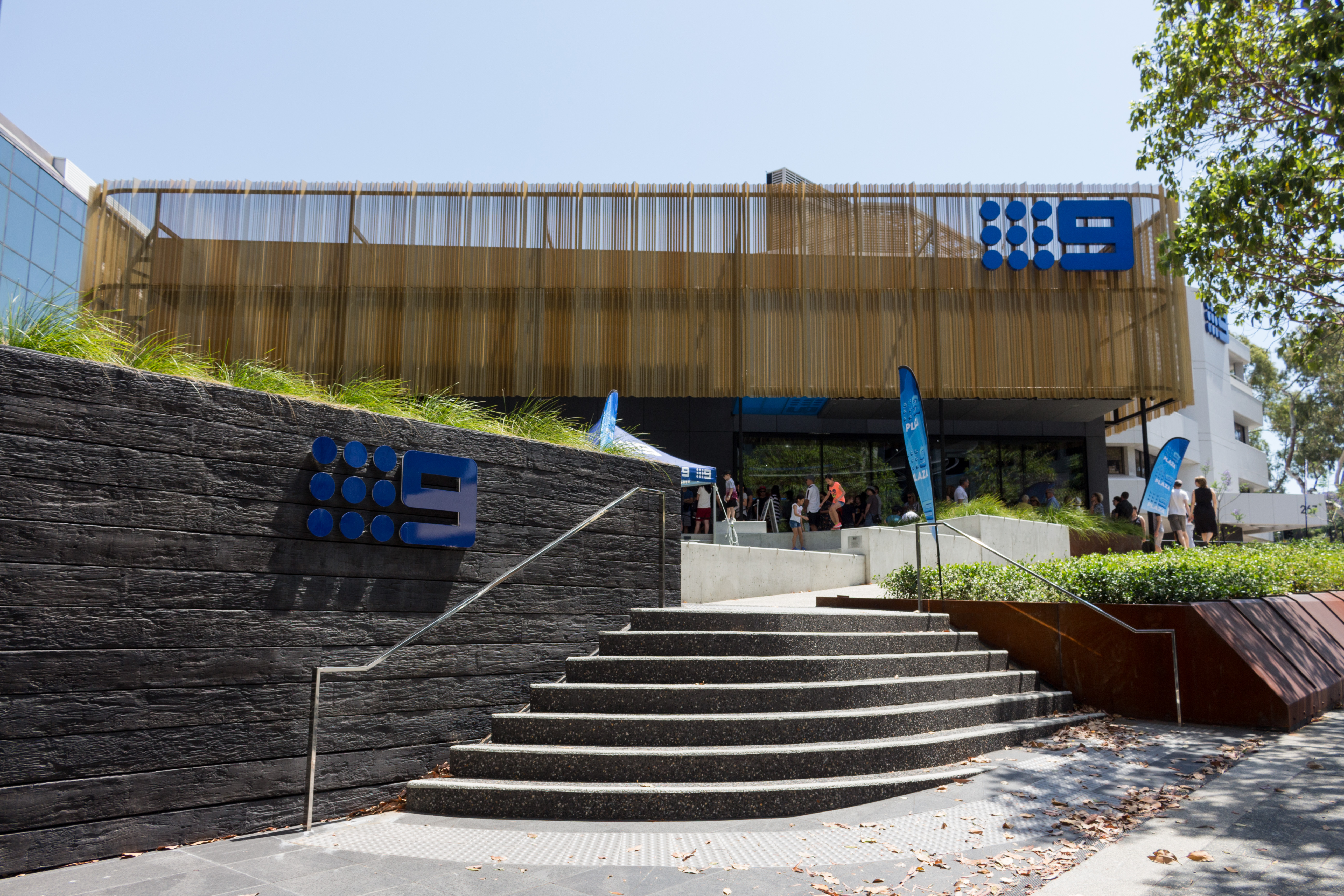 Exterior of Nine Plaza (253 St Georges Terrace)